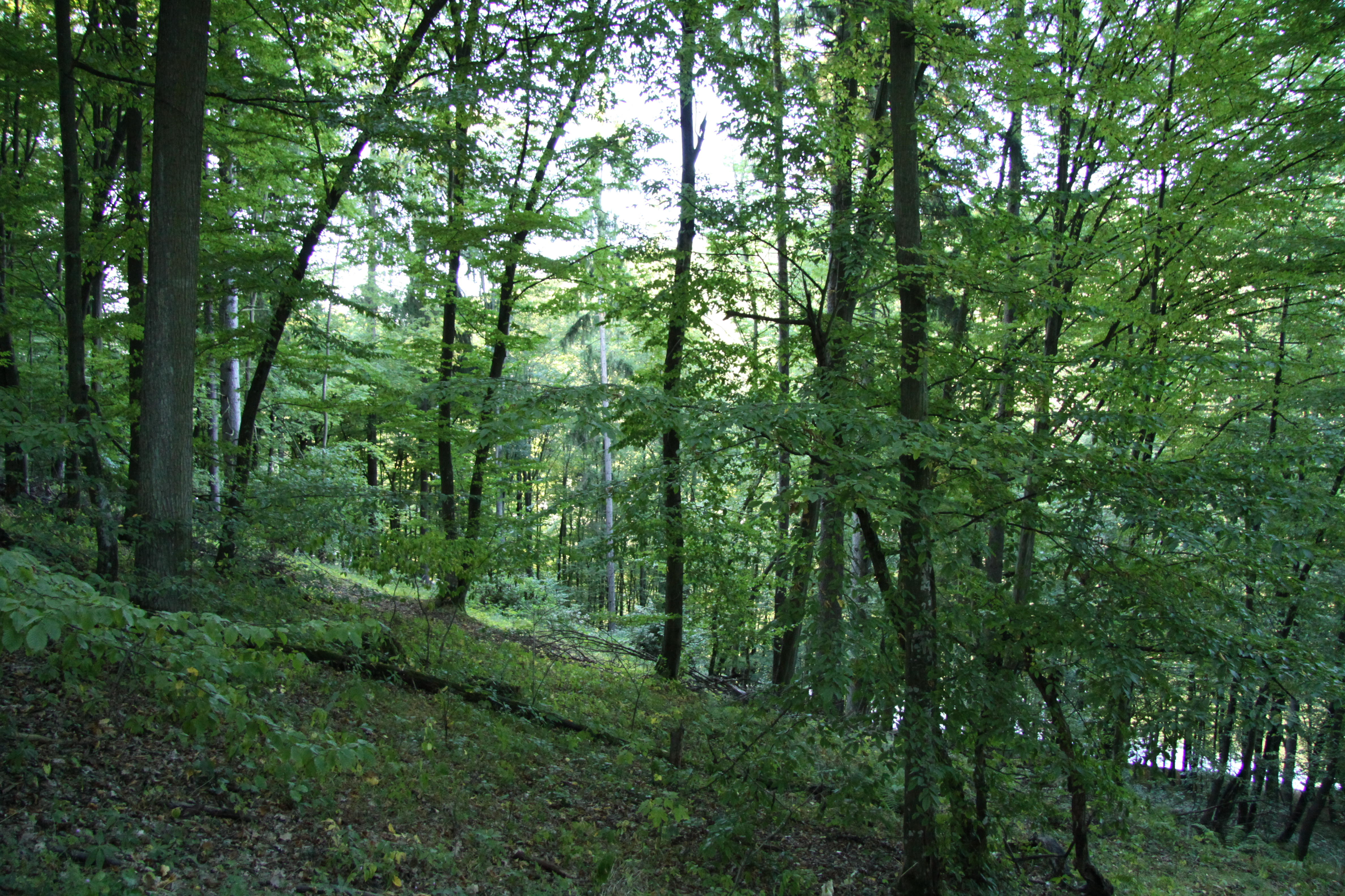 Natural reservation Dědovické stráně, Písek District, Czech Republic - Google Maps - Google Earth